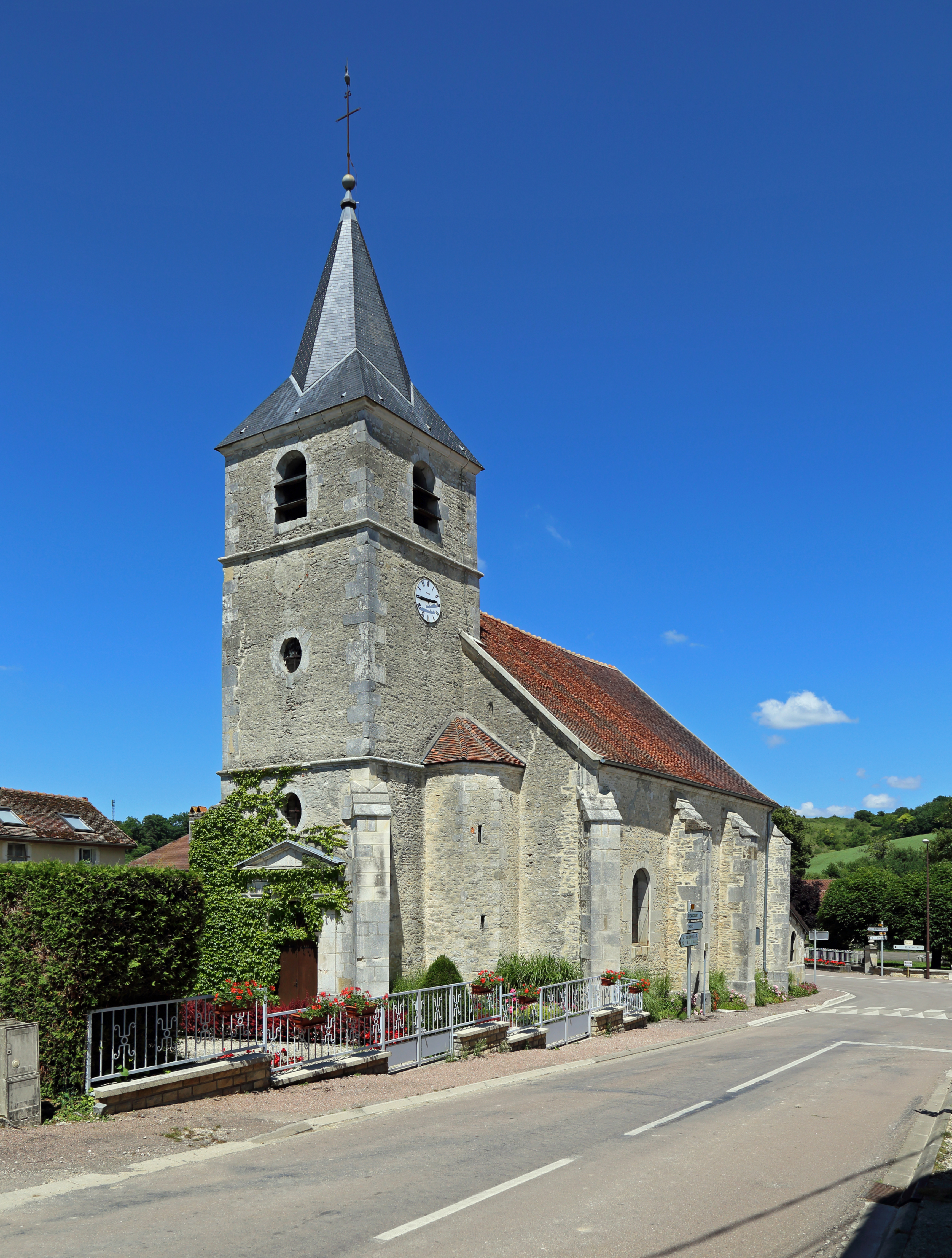 Saulcy (Aube department, France): Saint Brice church